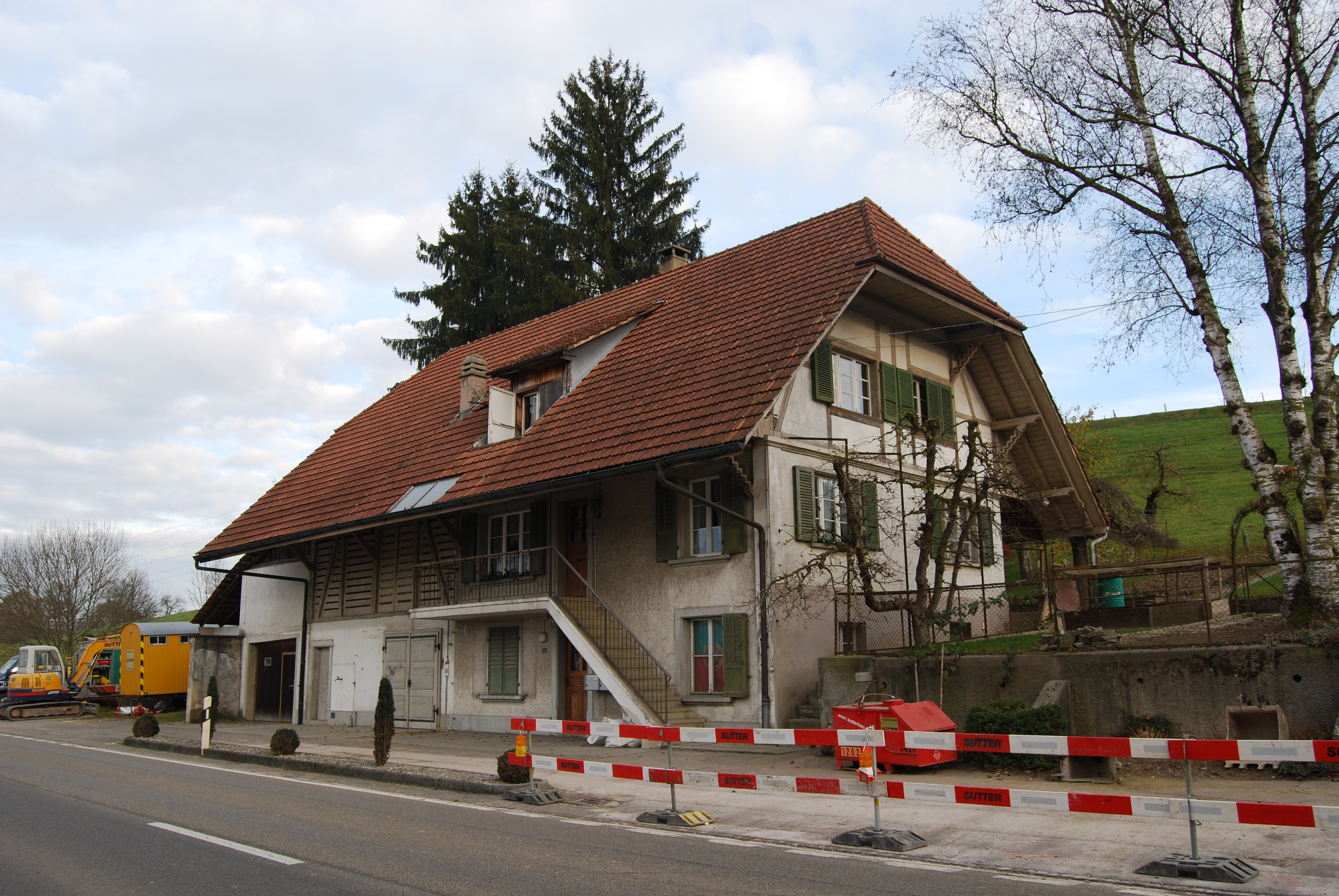 Timber framing house at Hellsau, canton of Bern, Switzerland